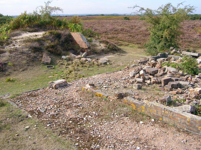 Remains of WWII buildings on Ibsley Common, New Forest, Hampshire